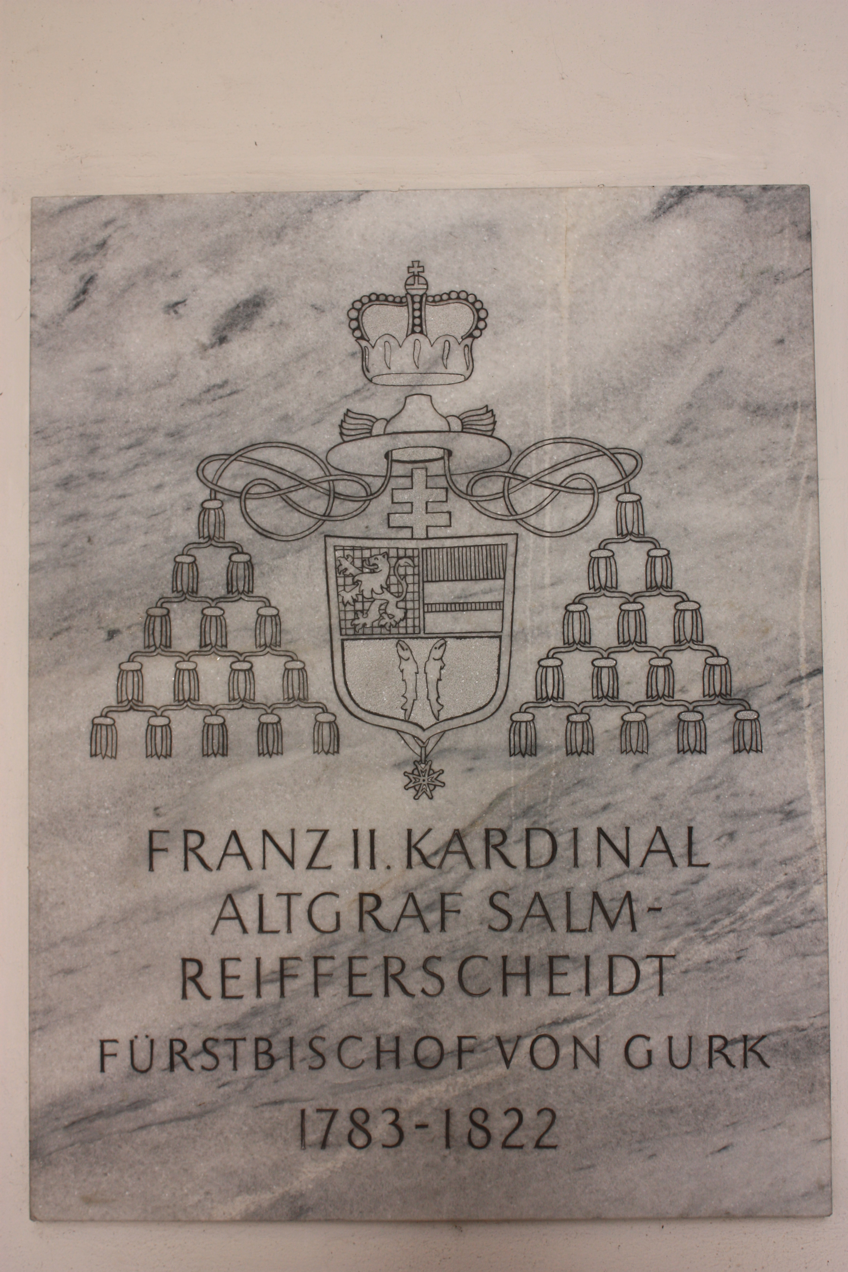 Parish church Saint Niklaus - epitaph of Franz II. Xaver von Salm-Reifferscheidt Locality:Straßburg Community:Straßburg